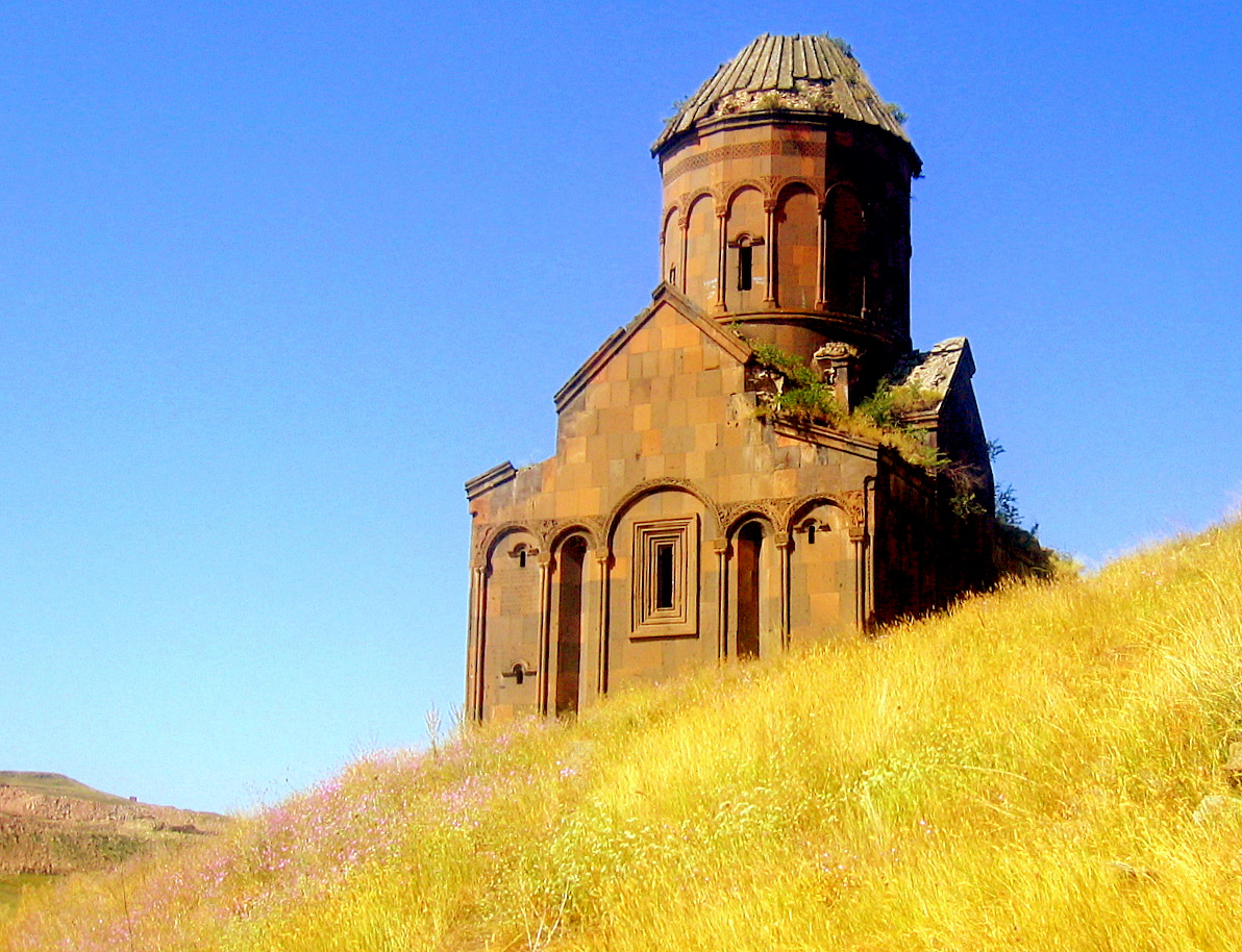 Armenian church at Ani, Ani.